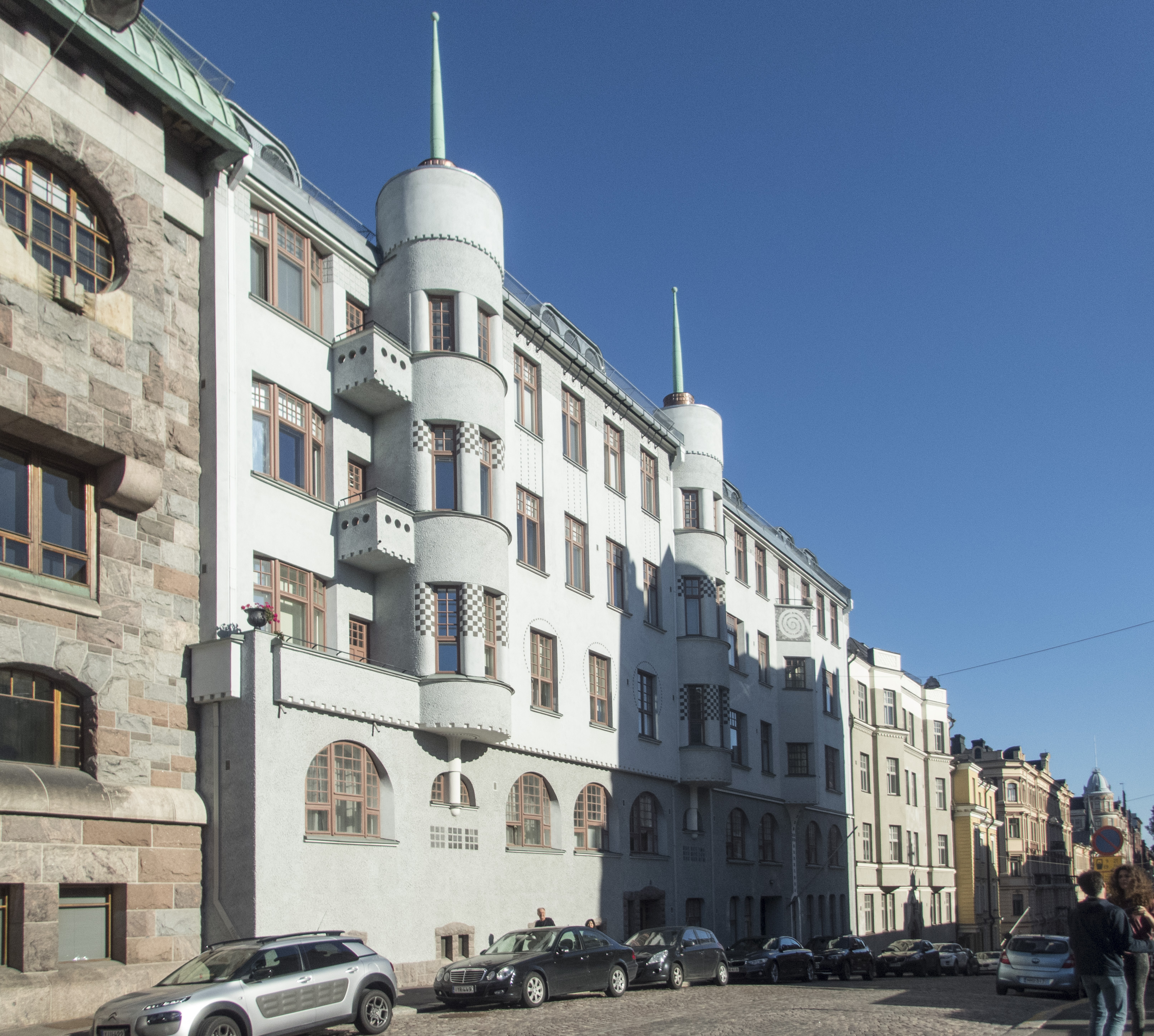 Kastén, Korkeavuorenkatu 31-33, Helsinki. Built in 1907. Architects Emil Svensson & Emil Holm